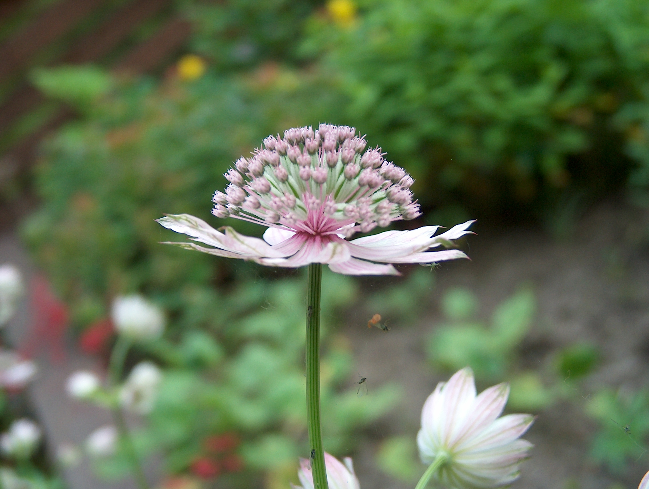 Great Masterwort - Astrantia major in Helsinki, Finland